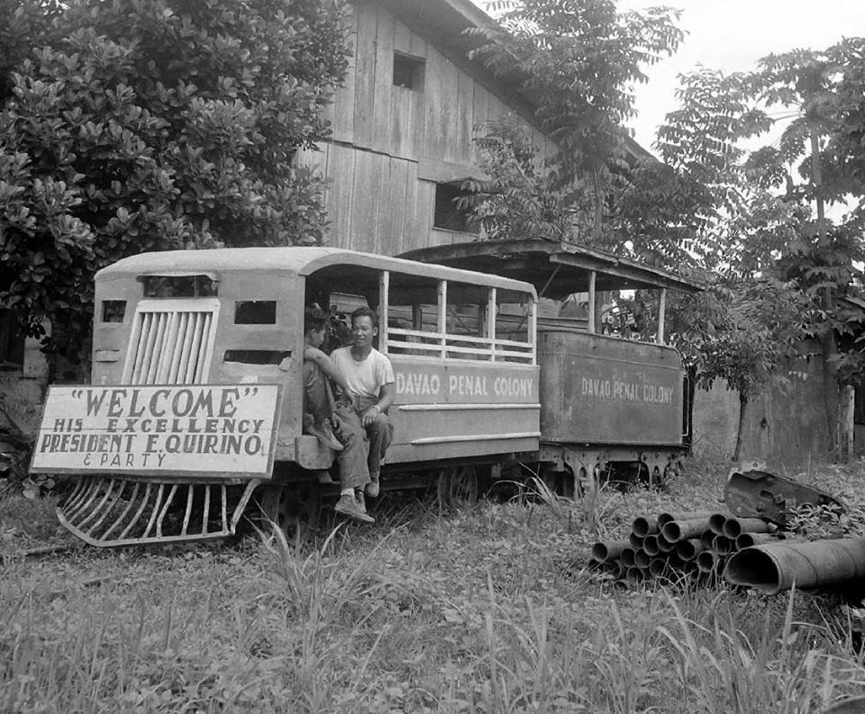 Davao Penal Colony - Welcome His Excellency President E. Quirino & Party